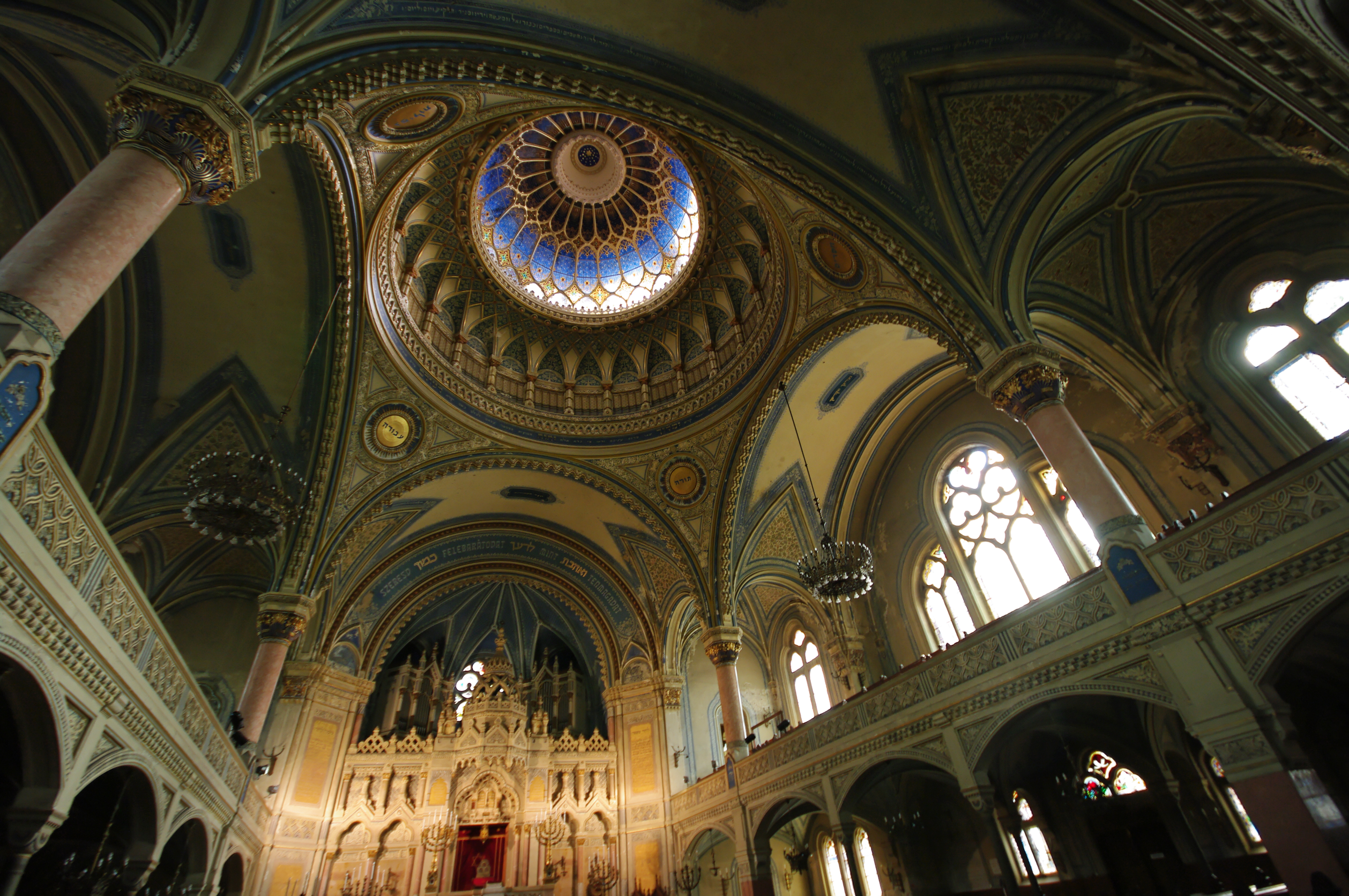 Arched ceiling inside the New Synagogue, Szeged, Hungary